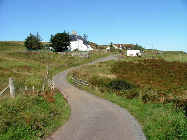 The old School, Borreraig, Skye, now a private home